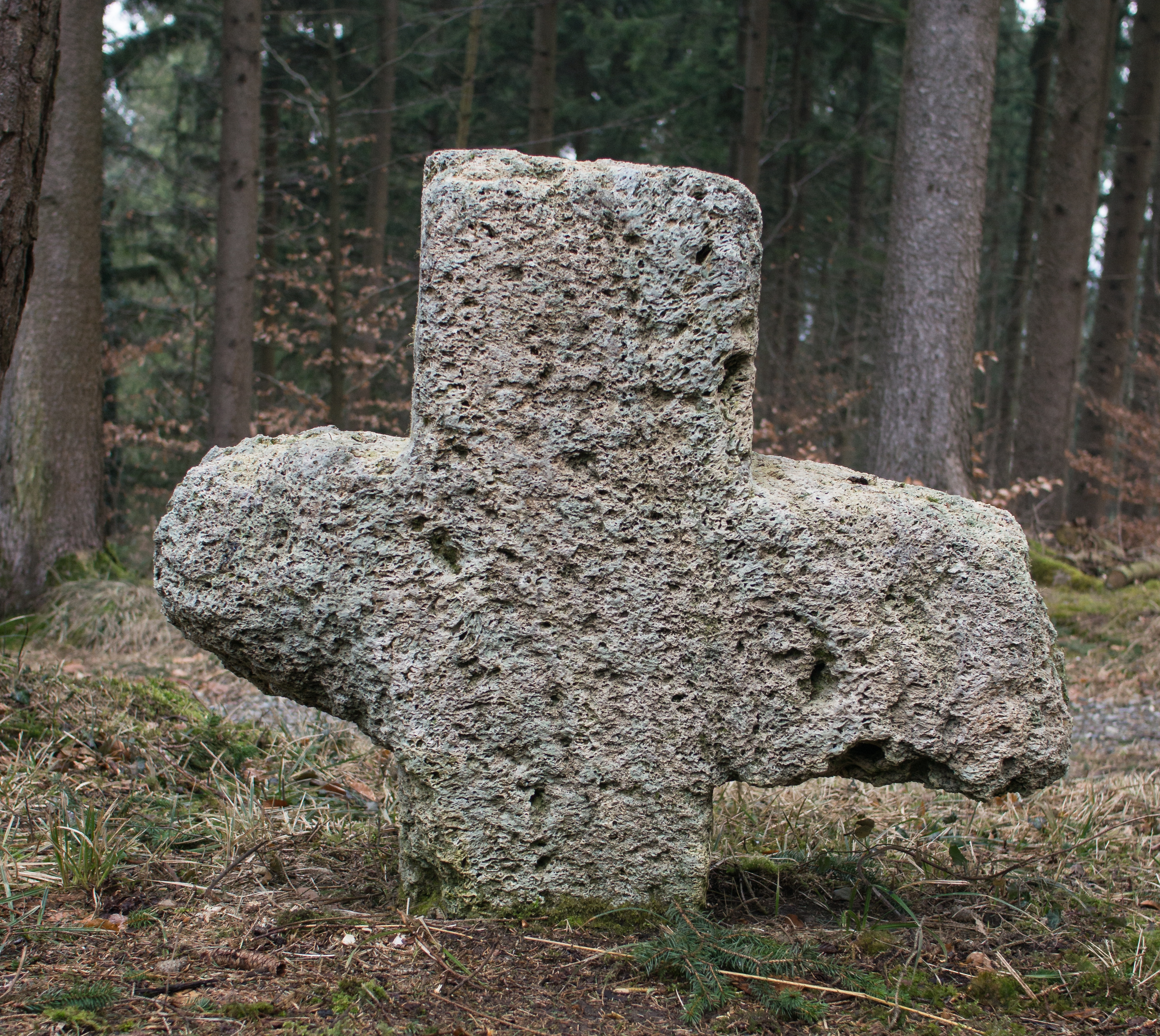 Conciliation cross near Ravensburg-Berg, Dickenwald, district Ravensburg, Baden-Württemberg, Germany